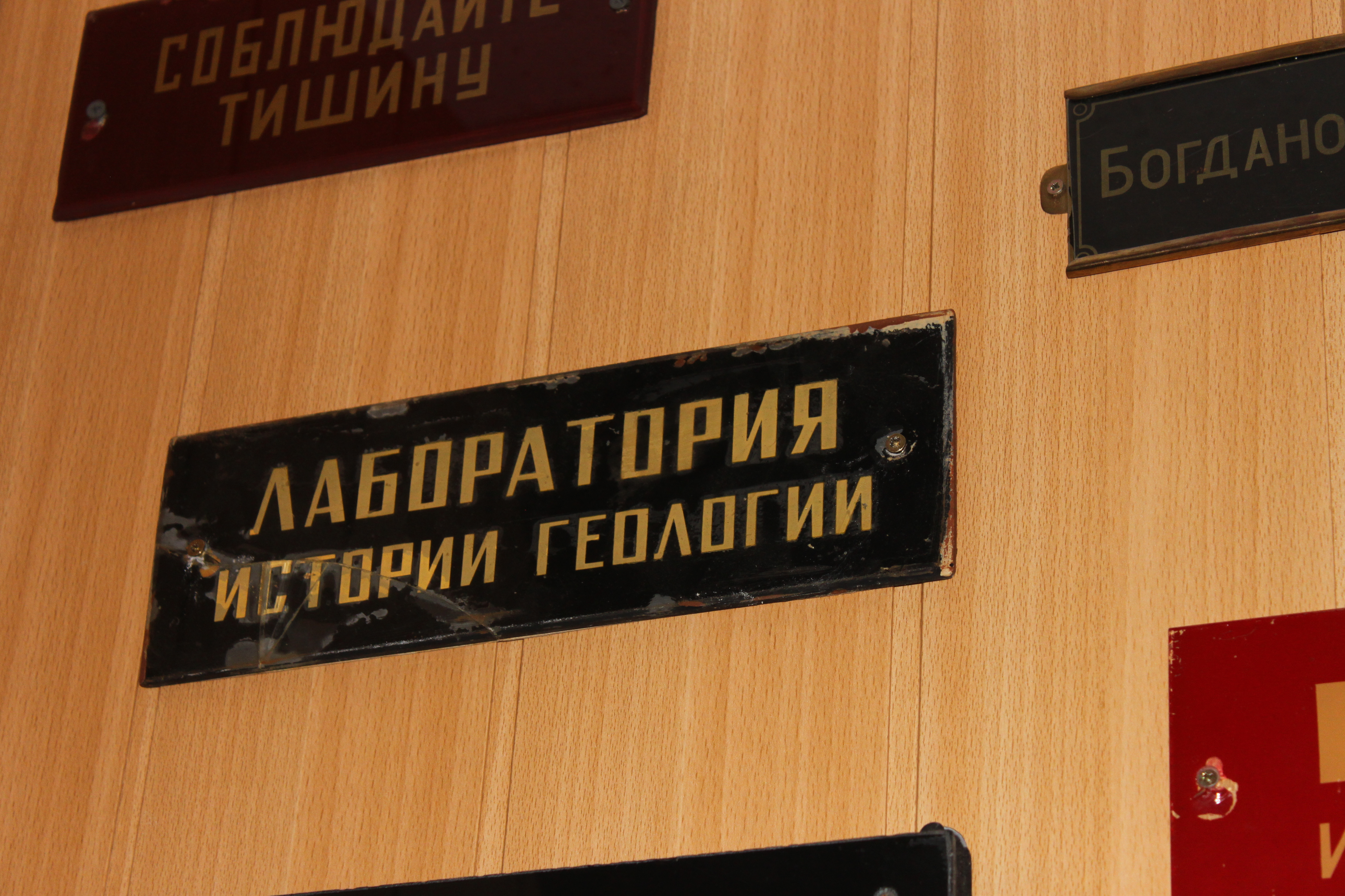 Wikitrip to Geography Institute RAS 2019-12-19.